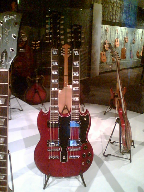 This double neck Gibson SG has been designed for Jimmy Page (Led Zeppelin guitarist). 12 includes a handle while the other string contains 6 (as the most "traditional" guitar). This particular guitar was used by Jimmy Page on the song Stairway to Heaven, worldwide hit!